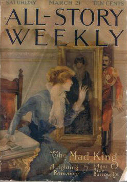 All-Story Weekly, March 21, 1914